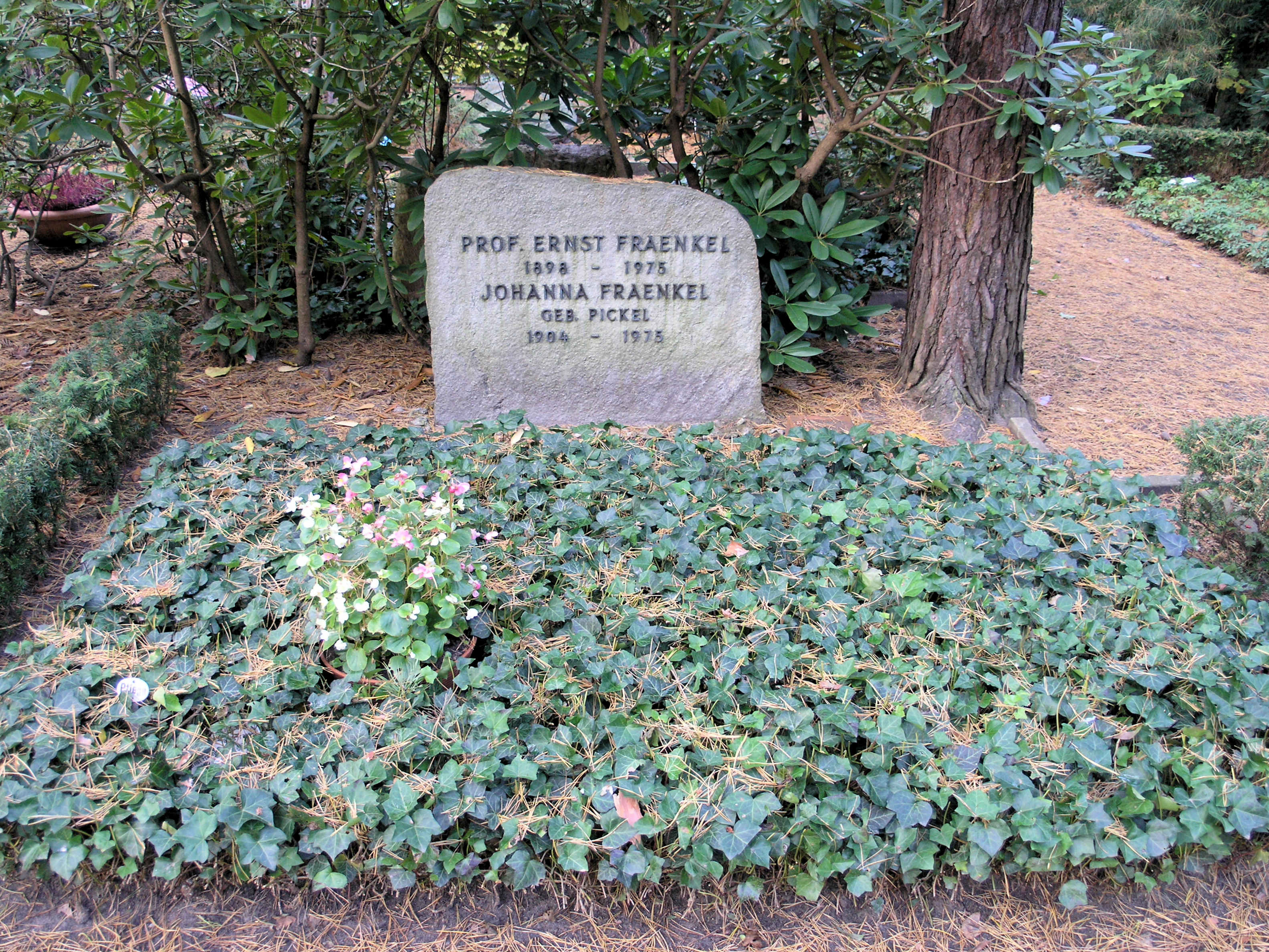 Graves, Ernst Fraenkel, Hüttenweg 47, Berlin-Dahlem, Germany